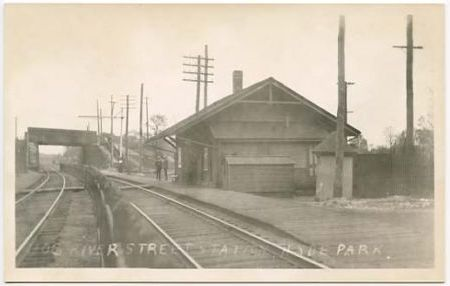 Early postcard of River Street station on the Midland Branch